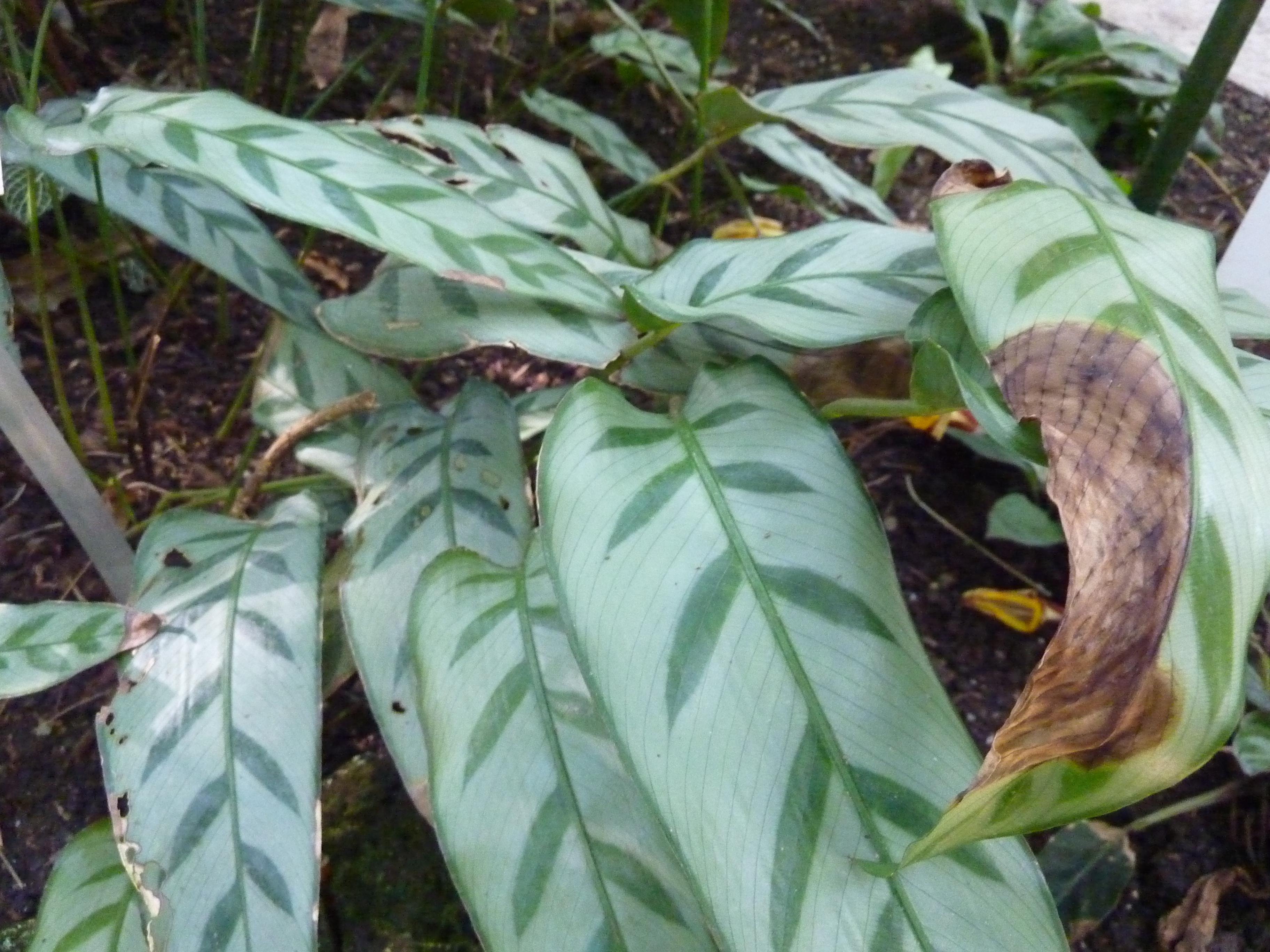 Calathea bachemiana in the Botanischer Garten Freiburg